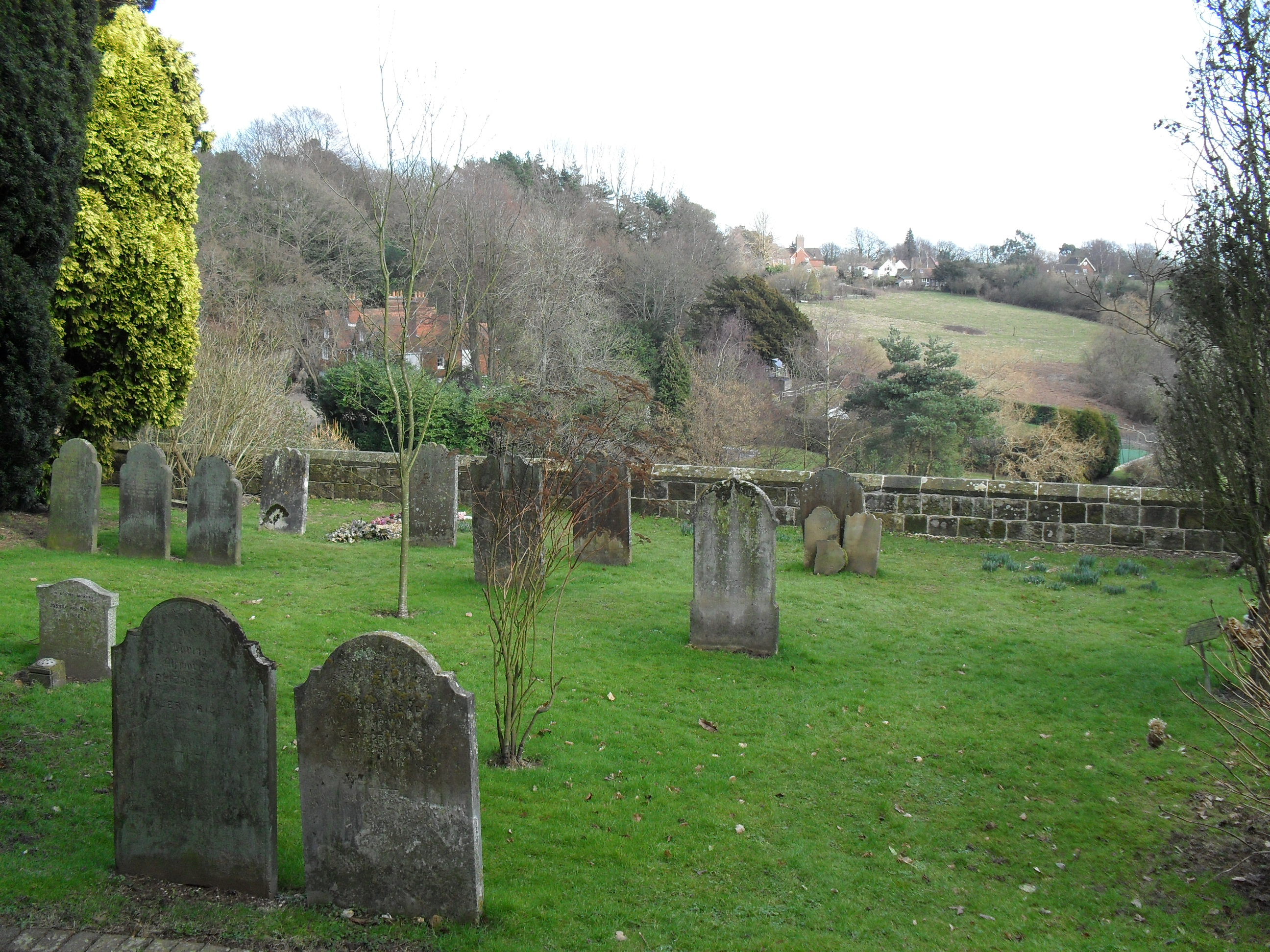 St Margaret's Church, West Hoathly, district of Mid Sussex, West Sussex, England. An Anglican church founded in the 11th century. Listed at Grade I by English Heritage (IoE Code 302844). This view looks from the upper level of the terraced churchyard.